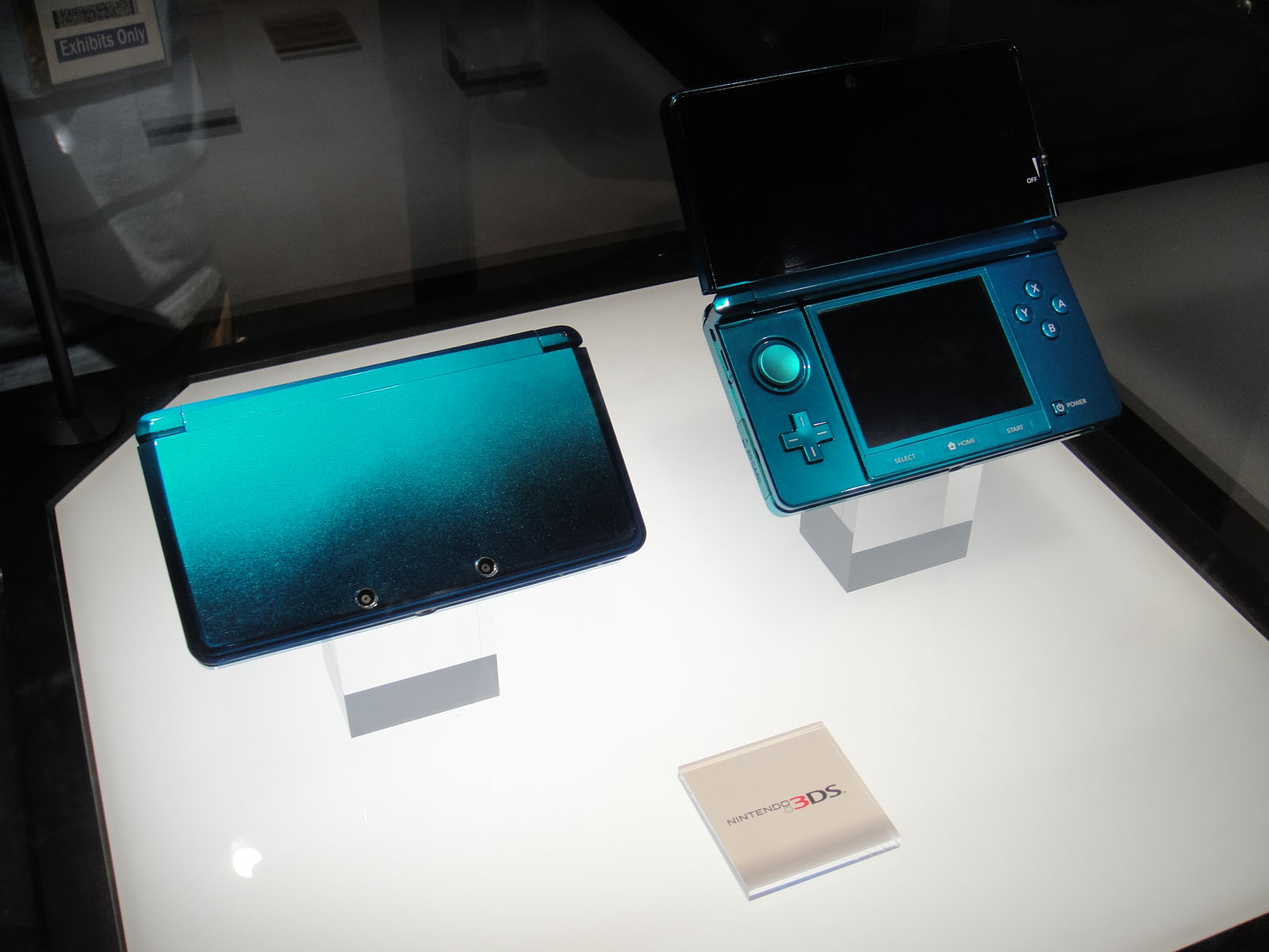 Blue Nintendo 3DS on display in Nintendo booth at the 2010 Electronic Entertainment Expo